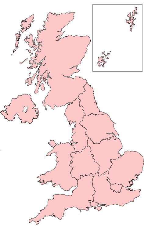 Map showing the regions of the United Kingdom. EU Parliament constituencies.